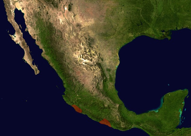 Map from wikimedia commons / Information from A. Locht, M. Yanez and I. Vazquez: DISTRIBUTION AND NATURAL HISTORY OF MEXICAN SPECIES OF BRACHYPELMA AND BRACHYPELMIDES (THERAPHOSIDAE, THERAPHOSINAE) WITH MORPHOLOGICAL EVIDENCE FOR THEIR SYNONYMY (1999)